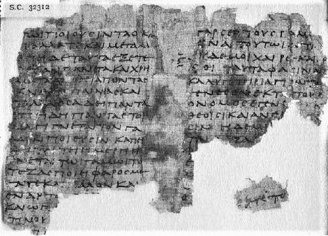 Grenfell-Hunt papyrus (MS Gr. class. f.48 [P]). The papyrus fragment shows two columns from Pherecydes' Heptamychos, of which next to nothing survives. The fragment does not mention the author or title, but the identification is certain because Clement of Alexandria (Strom. VI, 9, 4) refers to the content of Pherecydes' book, which corresponds to the content of the first column.